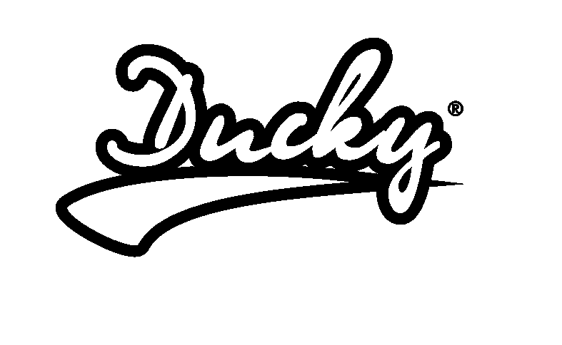 Logo_Ducky